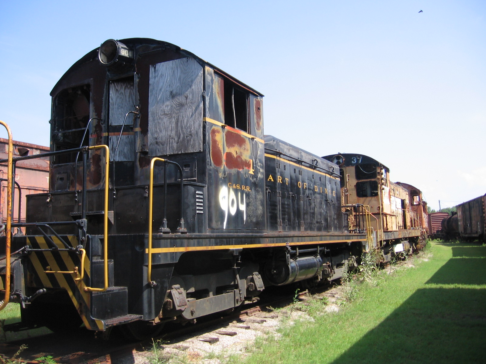 Electro-Motive Division SW-1 switcher locomotive at the Heart of Dixie Railroad Museum.